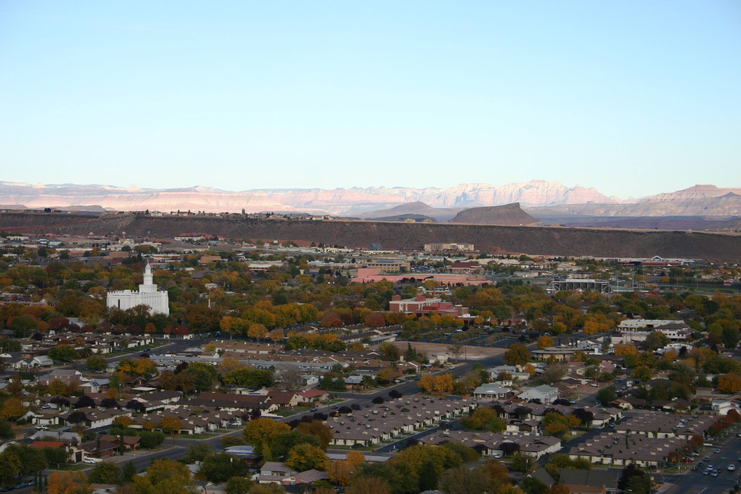 View of St. George, Utah with Zion National Park in the background and the St. George Utah Temple of the Church of Jesus Christ of Latter-day Saints in the foreground.